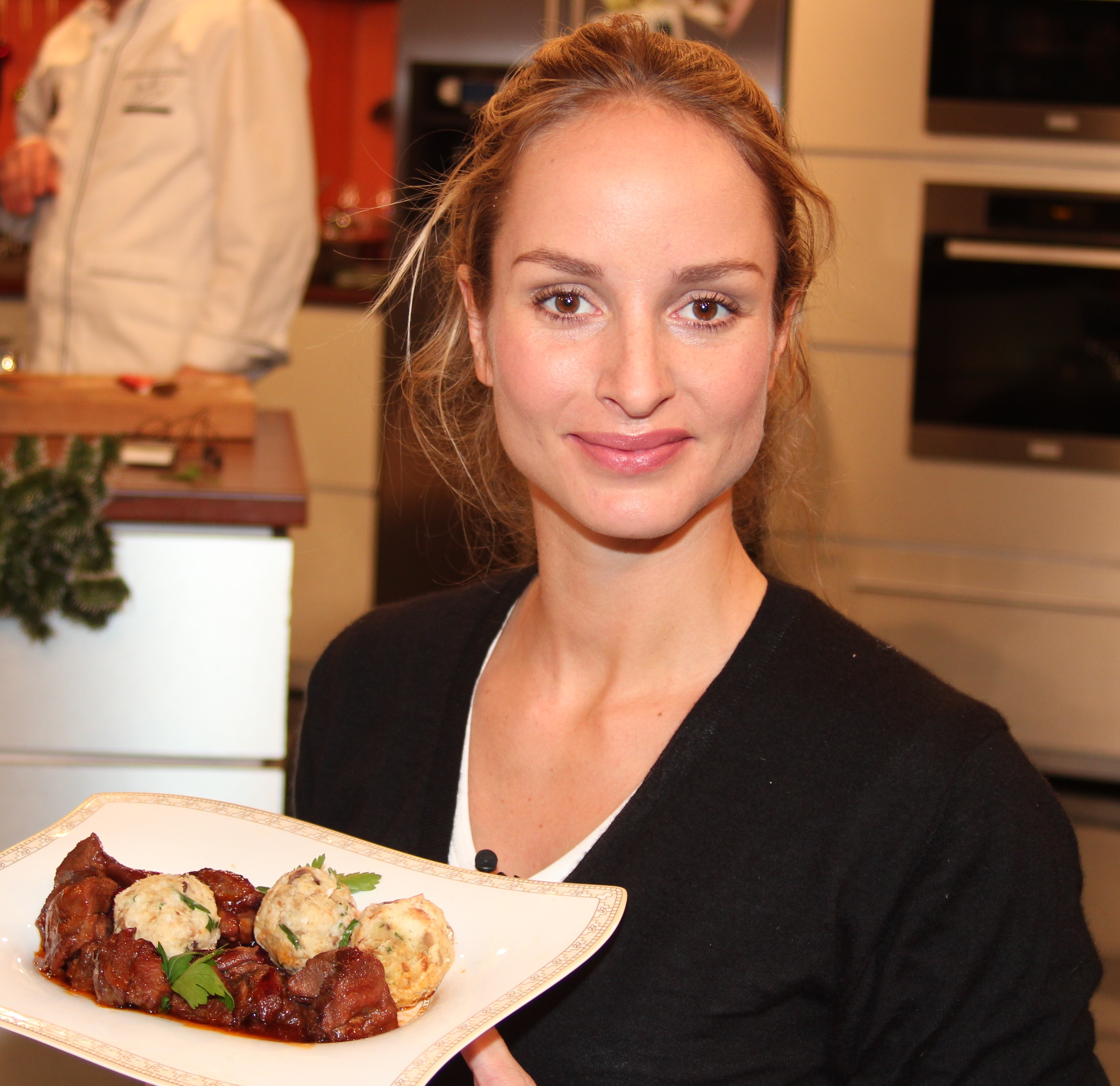 Actress Lara Joy Körner